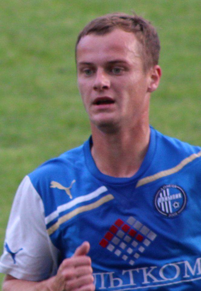 Igor Semenyna